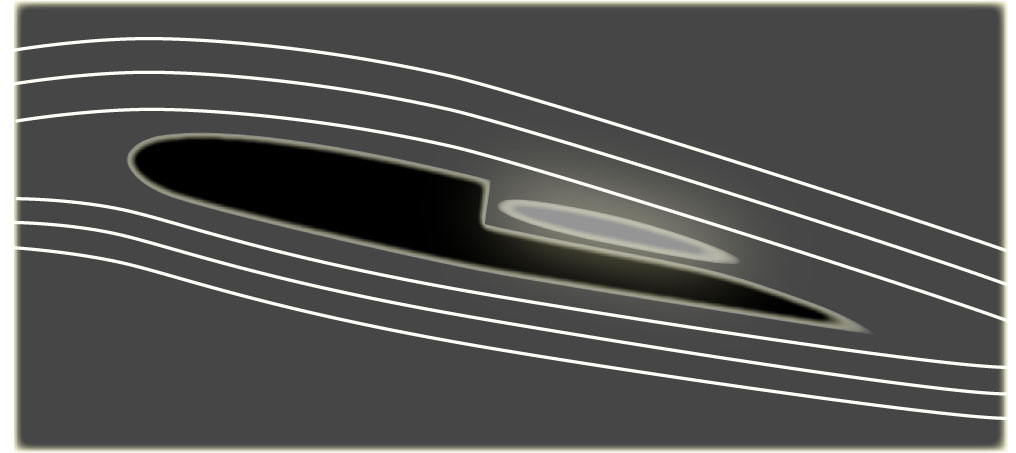 A simple diagram showing the purported airflow around a Kline-Fogleman KFm2 airfoil.